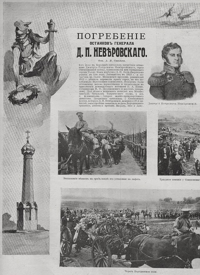 Russia. Borodino. Burial of the remains of general Neverovsky Dmitry (brought from Germany). July 1912.